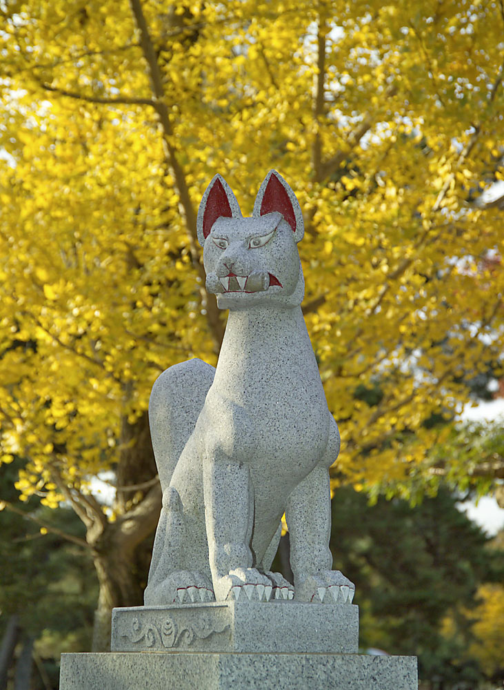 Fox, the left one from a pair of stone fox statues, at Inari Shintō shrine adjacent to Todaiji (Todai Temple), a Buddhist temple, in Nara, Japan.